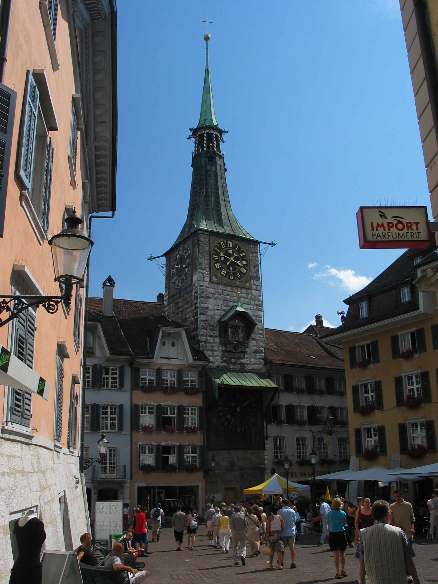 Clocktower (Zeitglockenturm) in the city of Solothurn, Swizerland.